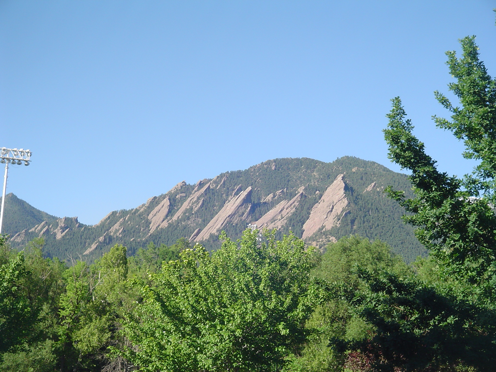 I took this picture of the Flatirons. Sorry about the copyright problem. I am relativley new to Wikipedia, and I kina messed up the tag. How do you fix it? Or if someone could fix it, please put the self made tag on this picture. Thanks, --Jimbo Herndan 05:16, 1 February 2007 (UTC) Copyright fixed I just uploaded the tag.